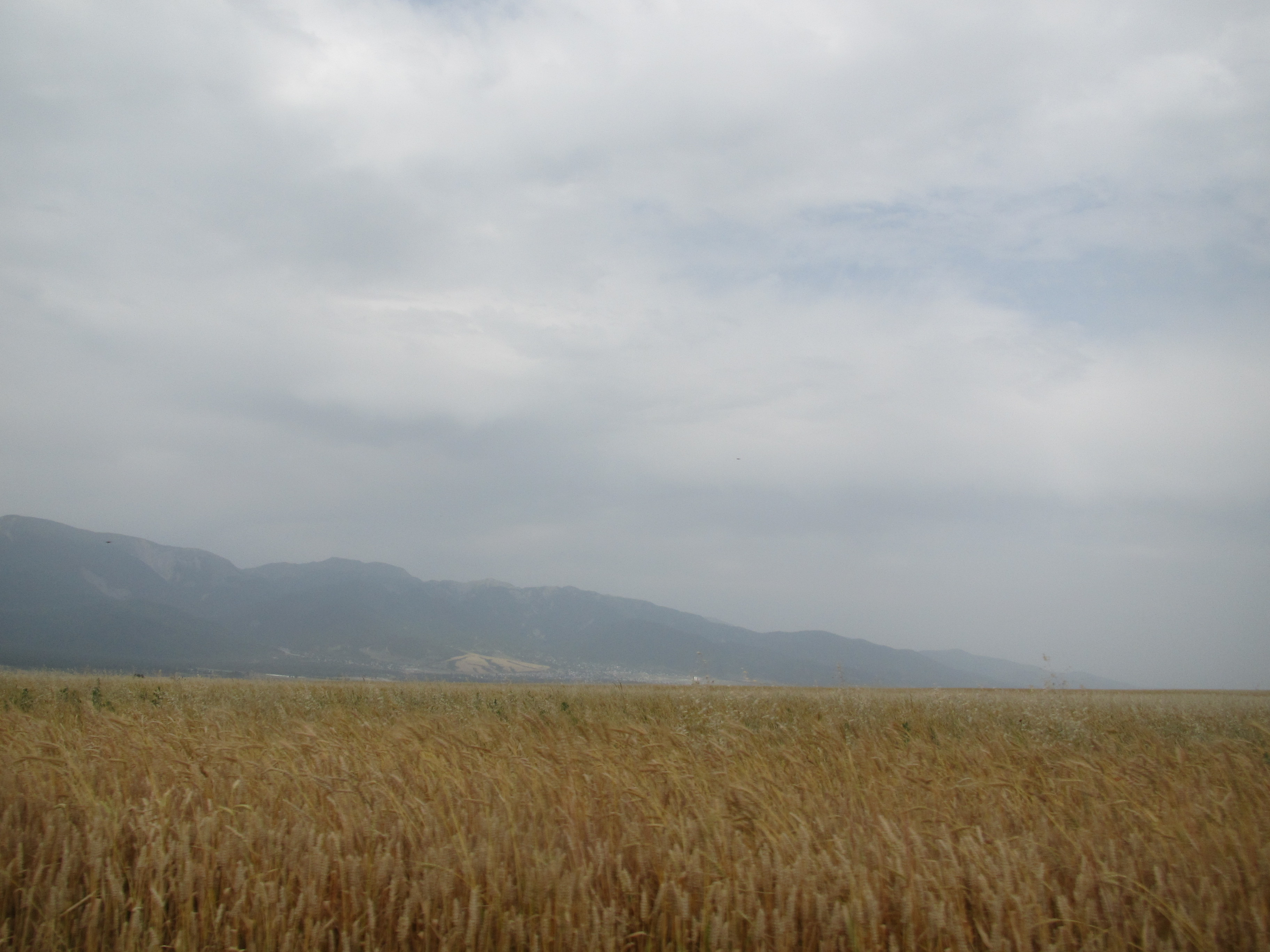 Wheat fields in Ivanovka village. Azerbaijan.